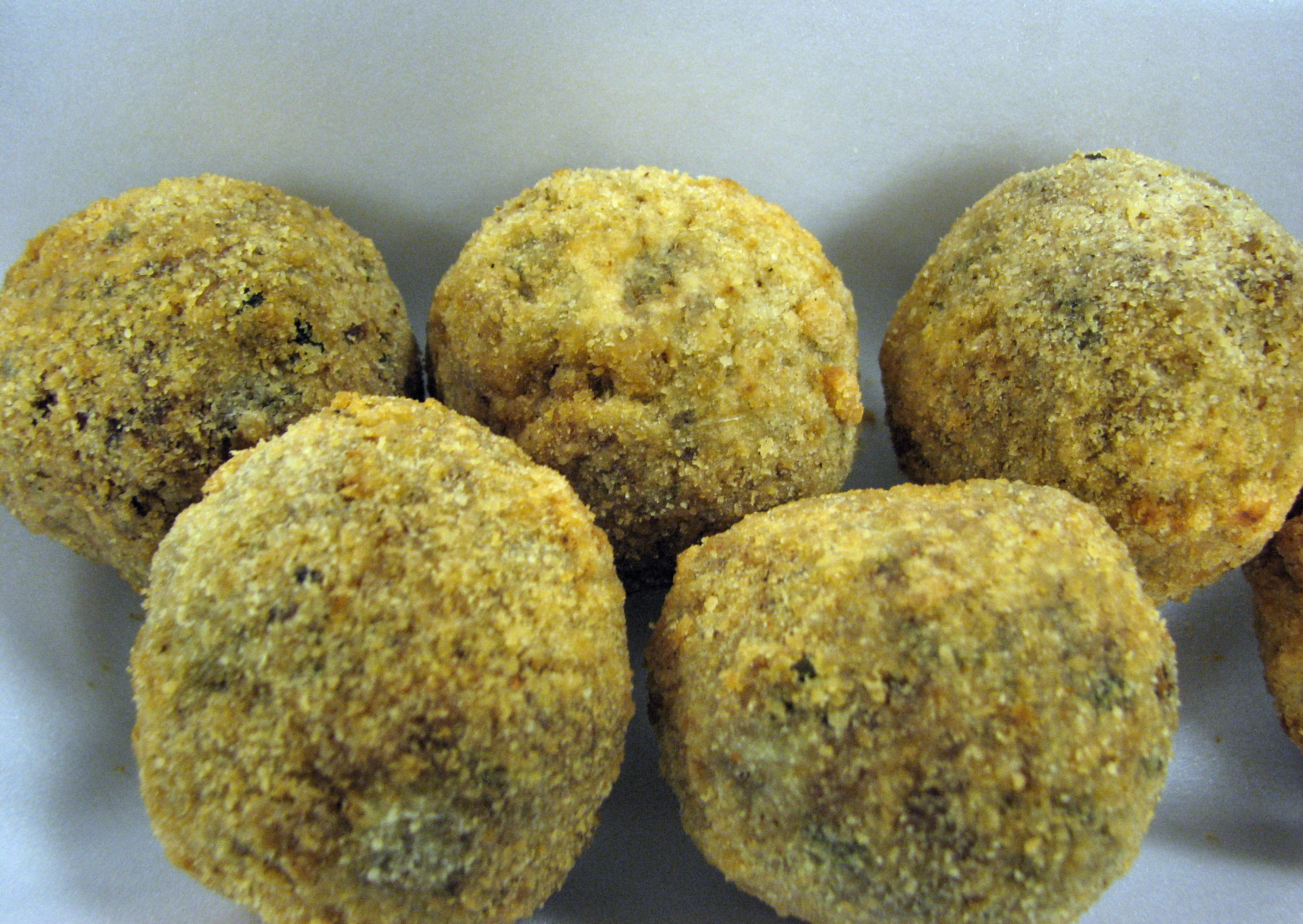 Photograph of Boudin sausage balls; a Cajun variation on Boudin blanc. The sausage is made of pork and rice, then instead of being packed into casings, its rolled into a ball, battered, and deep fried.